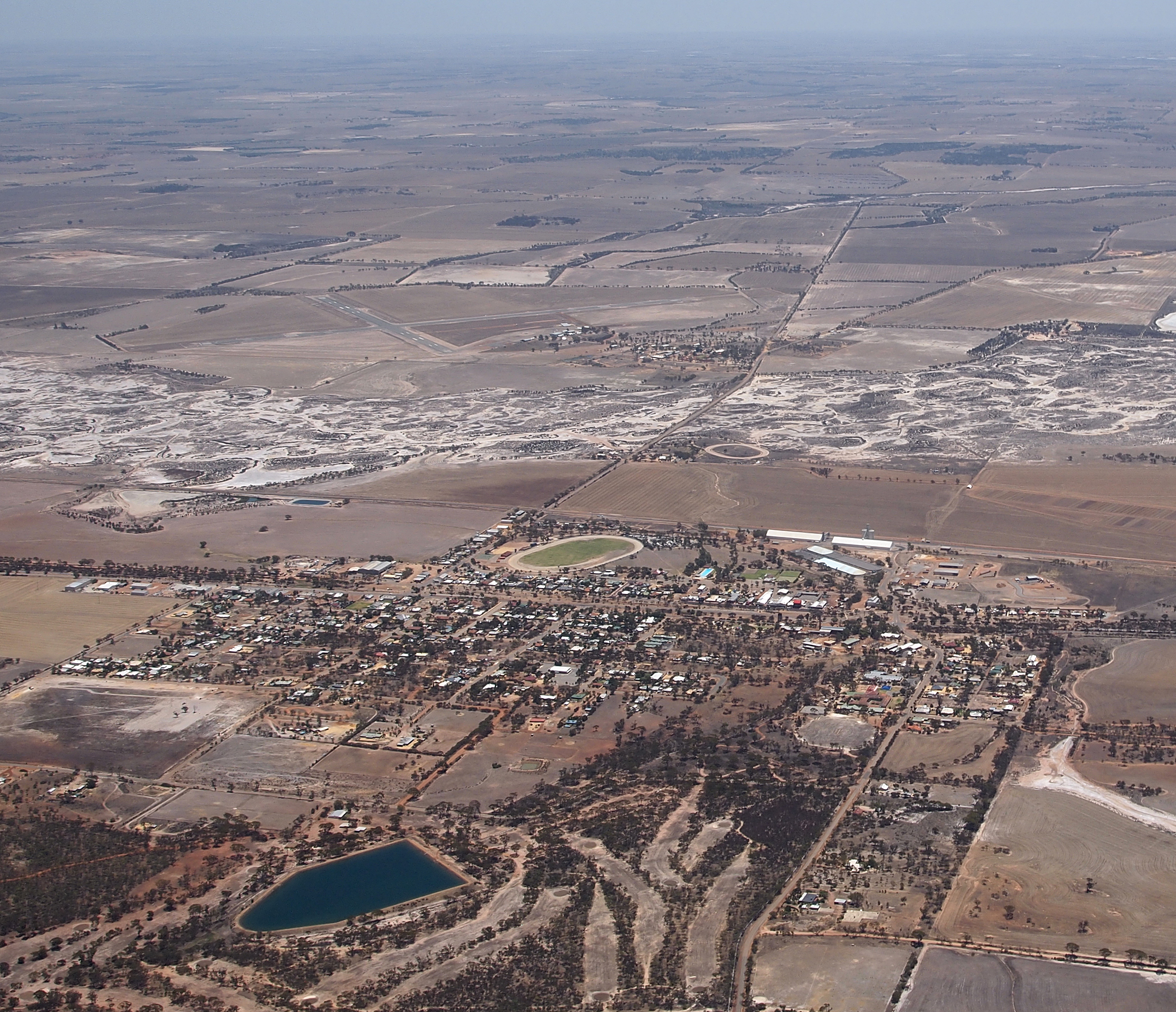 Aerial view of Cunderdin, Western Australia, looking from the south side of the town to the north. Clearly visible in the photo are the town oval, aquatic centre, CBH grain receival point, and the red roof of the Ettamogah Pub.